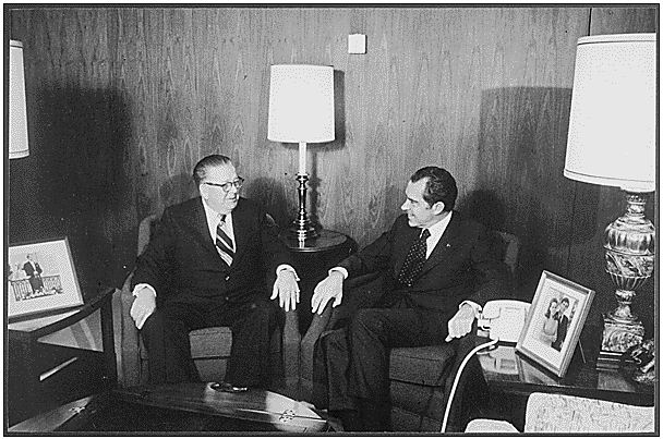 Richard Nixon meeting with Frank Fitzsimmons, President of the International Brotherhood of Teamsters, 02/12/1973